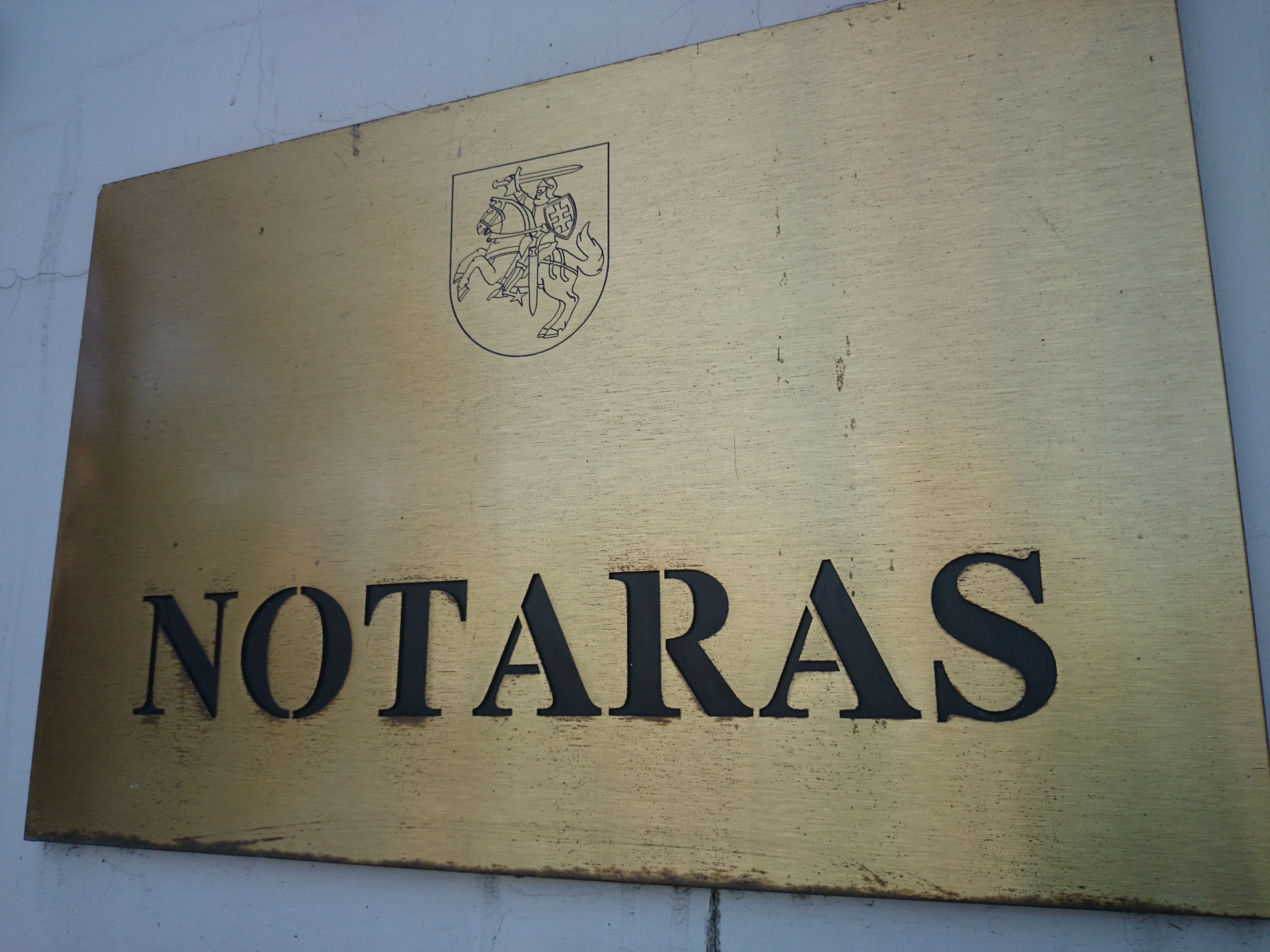 Notar LT